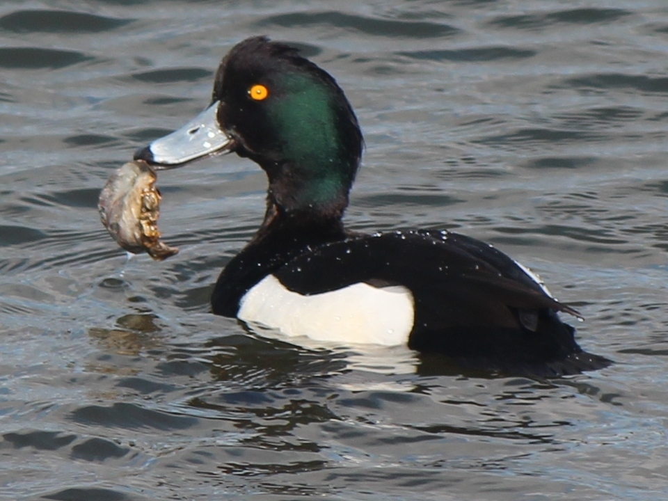 Aythya fuligula (Tufted Duck) male eating in Japan